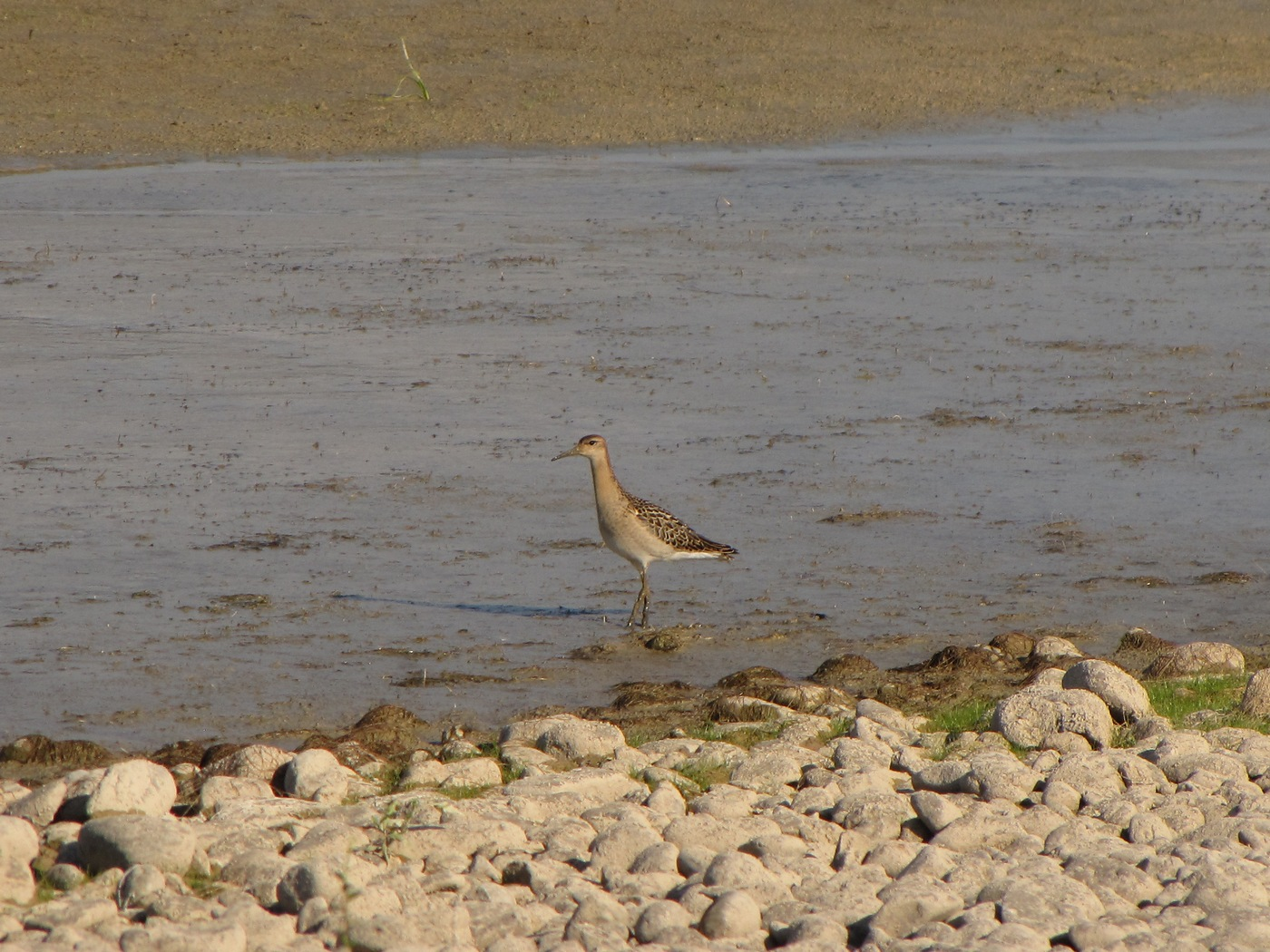 The ruff